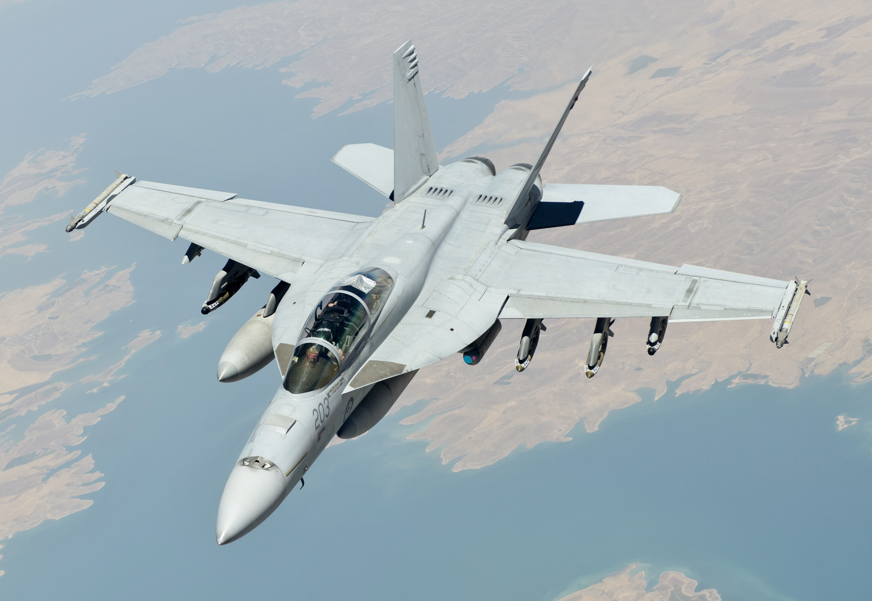 A Royal Australian Air Force F/A-18F Super Hornet departs after receiving fuel from a U.S. Air Force KC-135 Stratotanker assigned to 340th Expeditionary Air Refueling Squadron in support of Operation Inherent Resolve on July 1, 2017. The KC-135 Stratotanker provides aerial refueling support to U.S. and coalition aircraft 24/7 throughout the U.S. Air Forces Central Command area of responsibility. (U.S. Air Force photo by Tech. Sgt. Amy M. Lovgren)